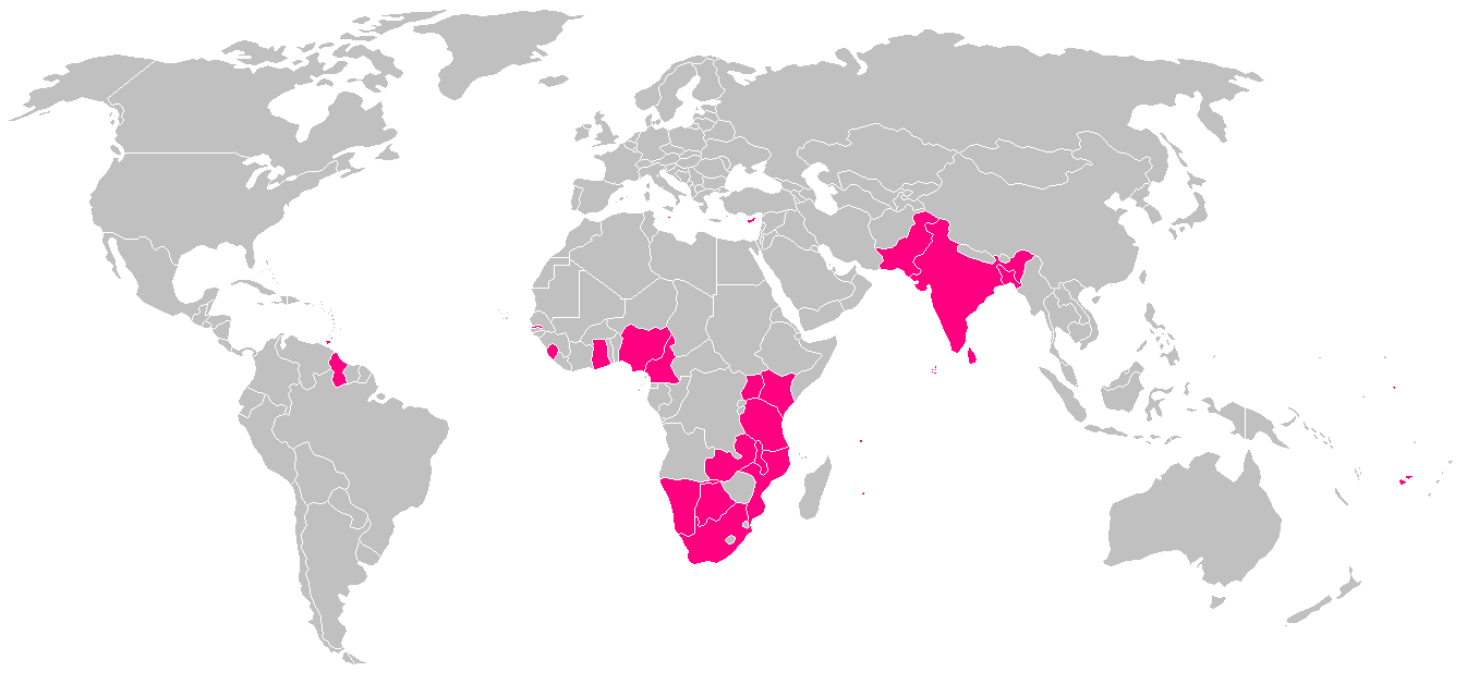 Republics in the Commonwealth of Nations in 2006